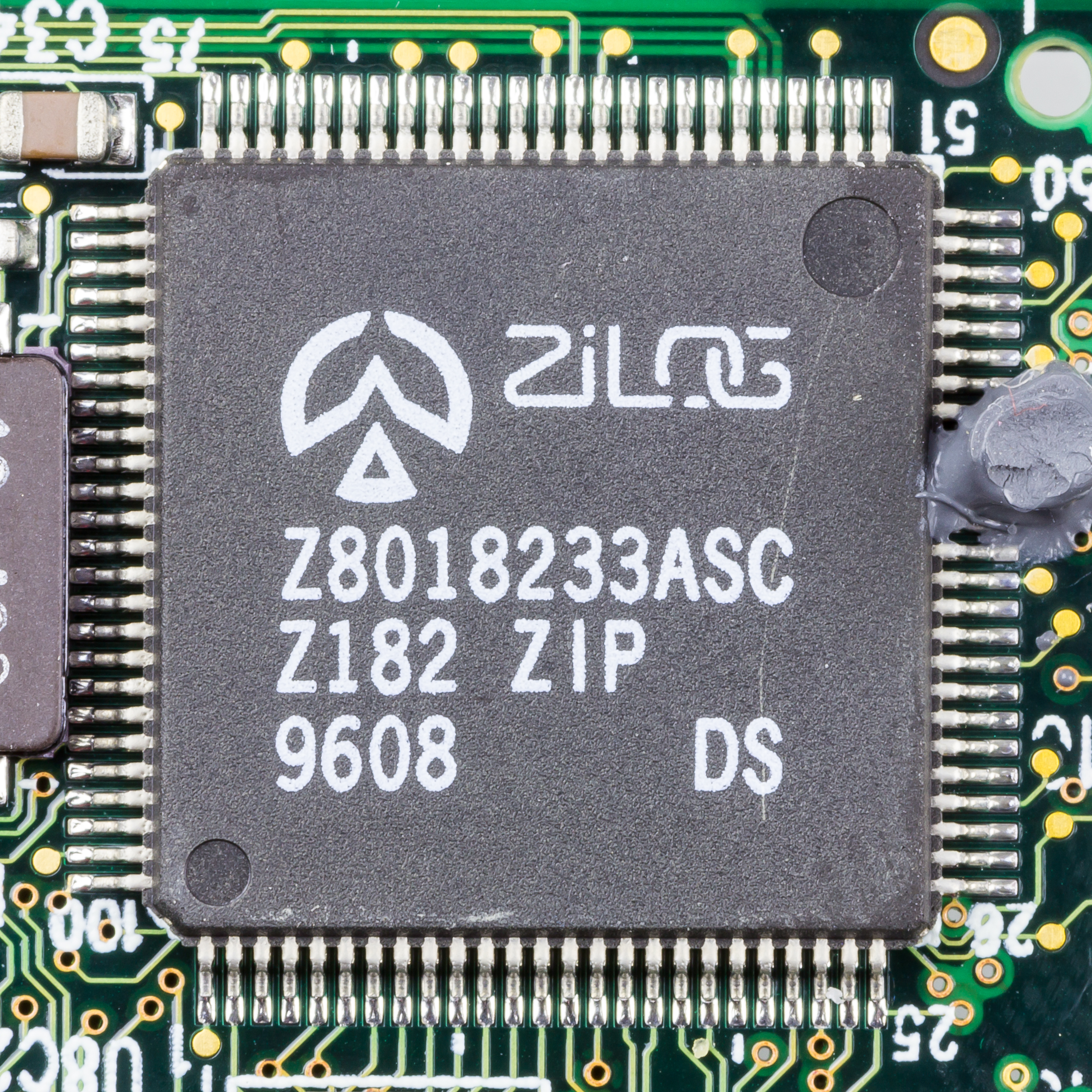 IBM PCMCIA Data/Fax Modem V.34 FRU 42H4326 - ZiLOG microprocessor Z80182 (Z182)